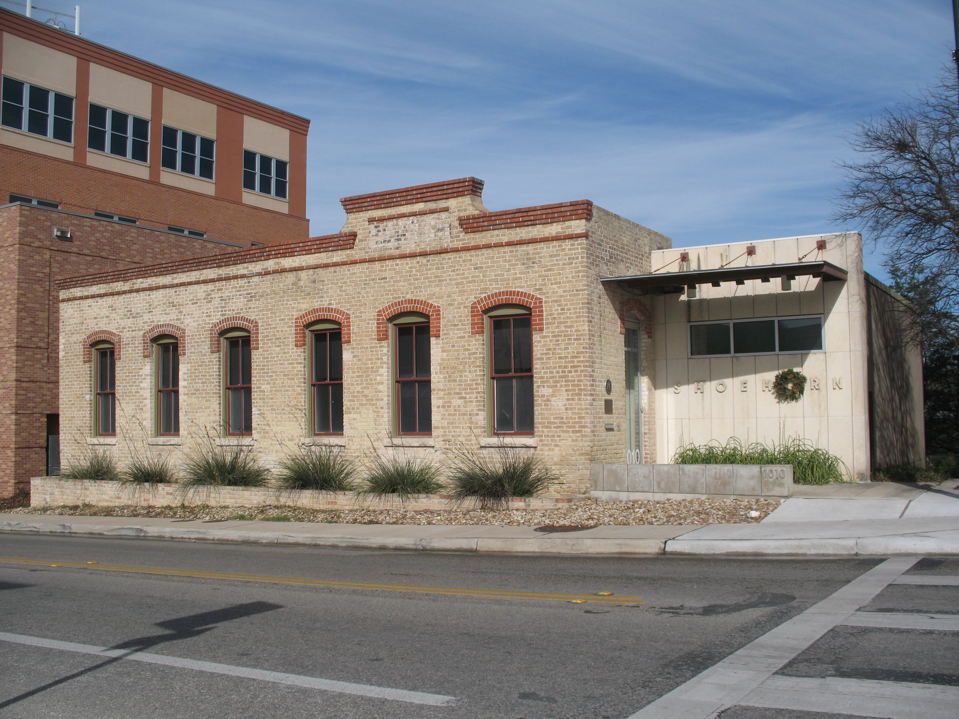 Former Arnold's Bakery at 1010 E. 11th St., Austin, Texas, United States